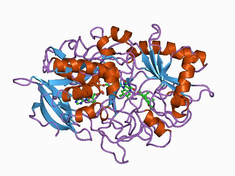 Cartoon representation of the molecular structure of protein registered with 1coy code.